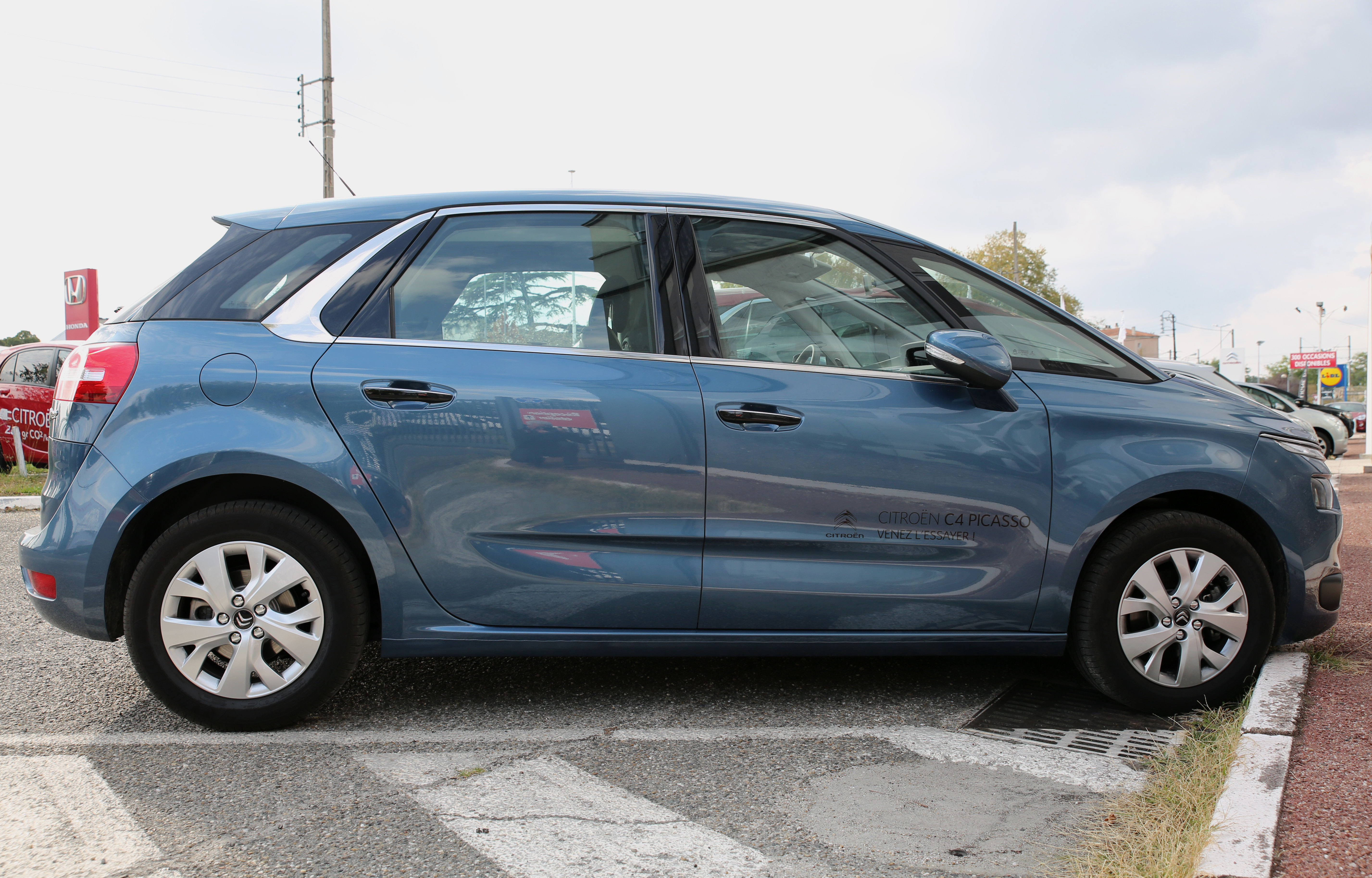 Citroën C4 Picasso II courte